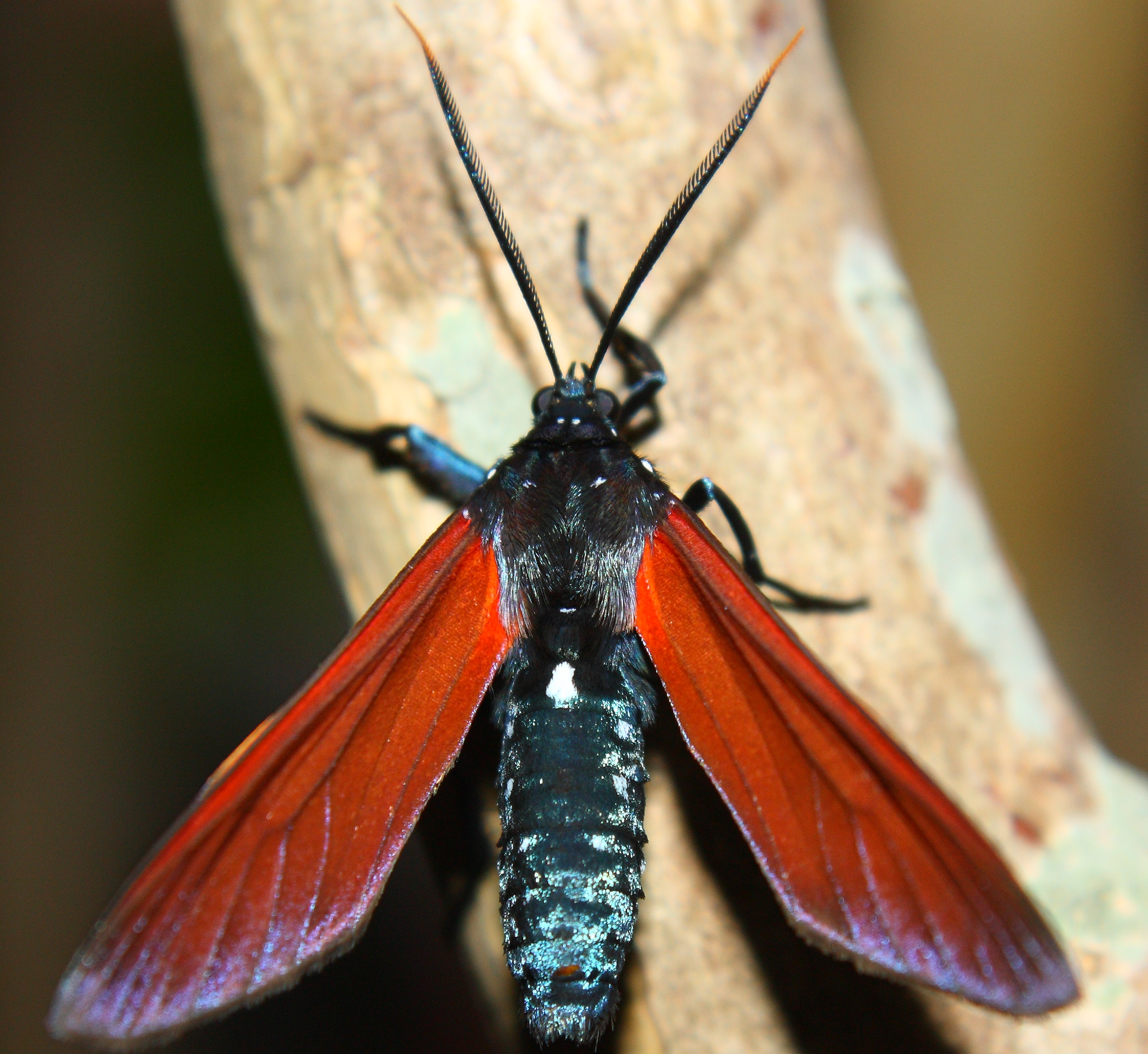 Spotted Oleander Wasp Moth (Empyreuma affinis) resting on Lagerstroemia indica in Orlando, FL. Photographed By Shaina Noggle.